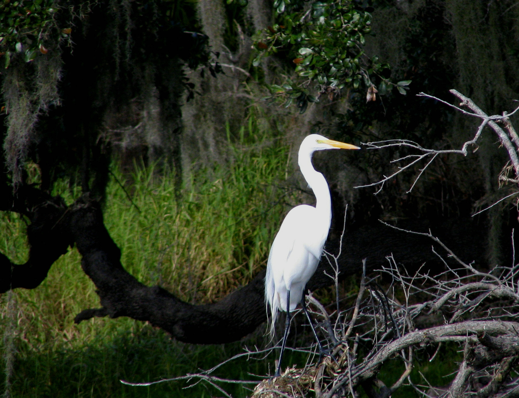 Great Egret - Myakka River State Park. Taken by User:Mwanner, 13 February, 2007.